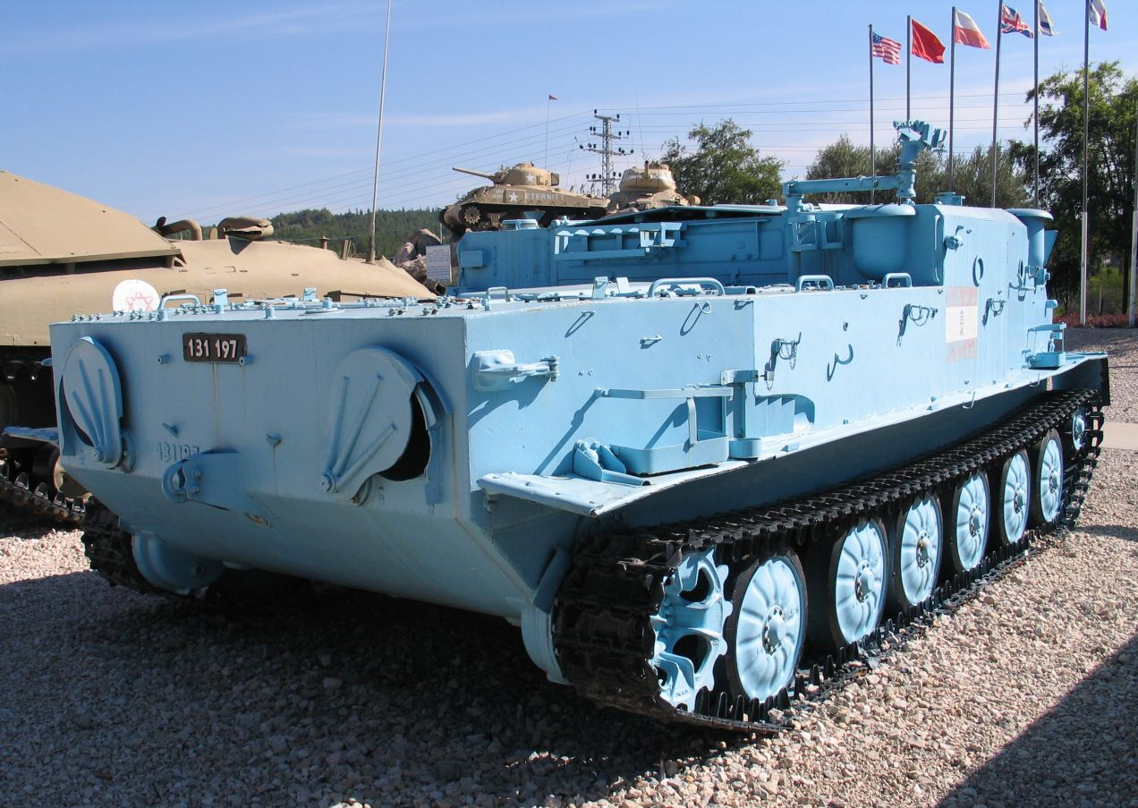 Description: BTR-50-based medevac vehicle in Yad la-Shiryon Museum, Israel. 2005. The vehicle was used by the South Lebanon Army. Source: Photo by me, User:Bukvoed